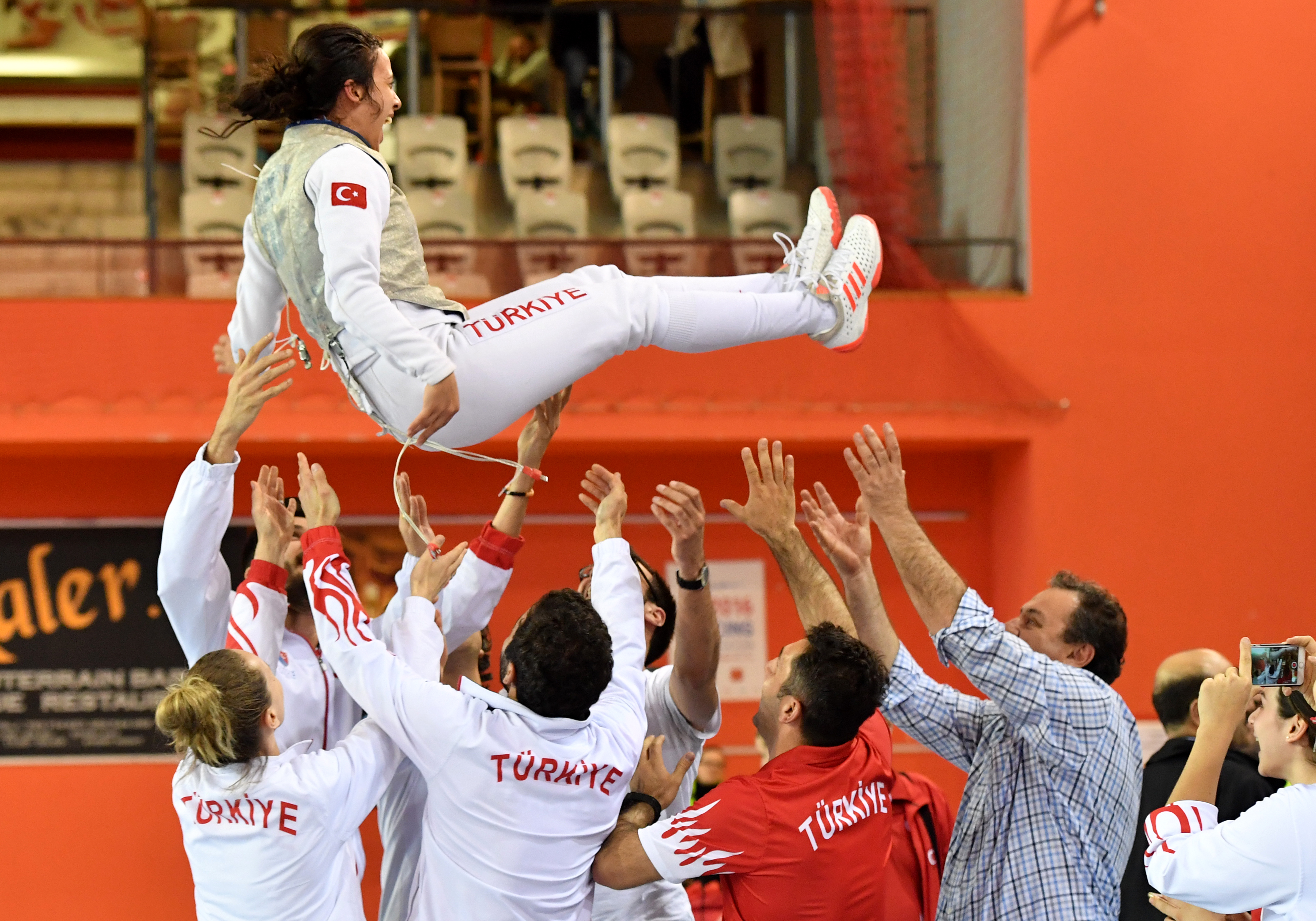 Olympic Qualification 2016, Prag